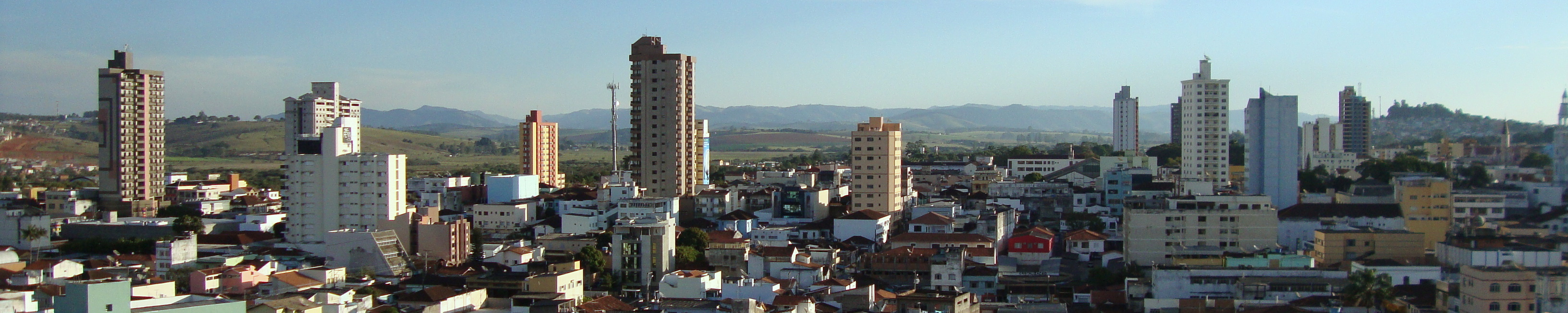 Pouso Alegre skyline on May 2010.